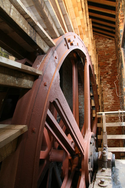 Scoopwheel, Dogdyke pumping station